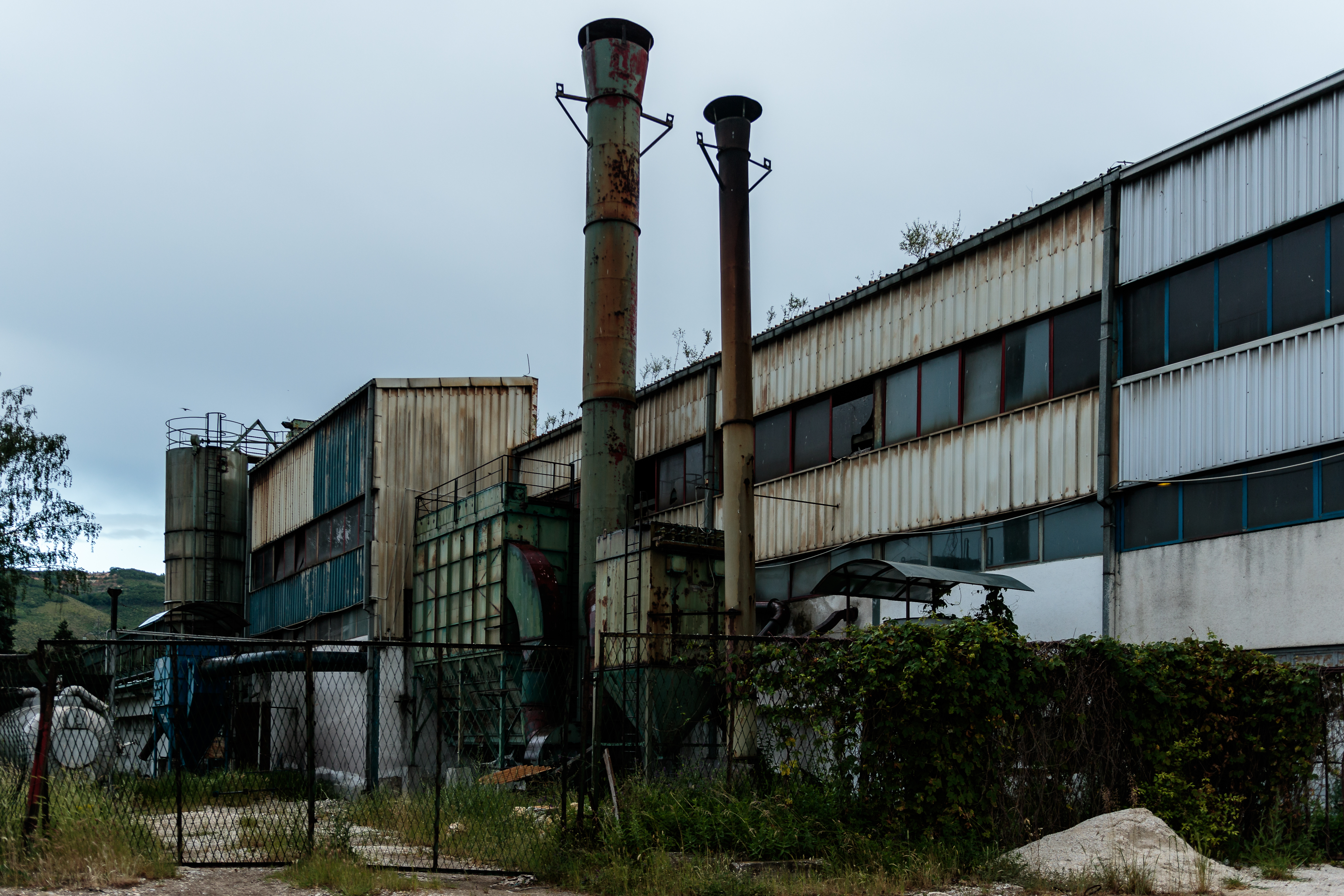 Company Zeleznik in the village Sopotnica